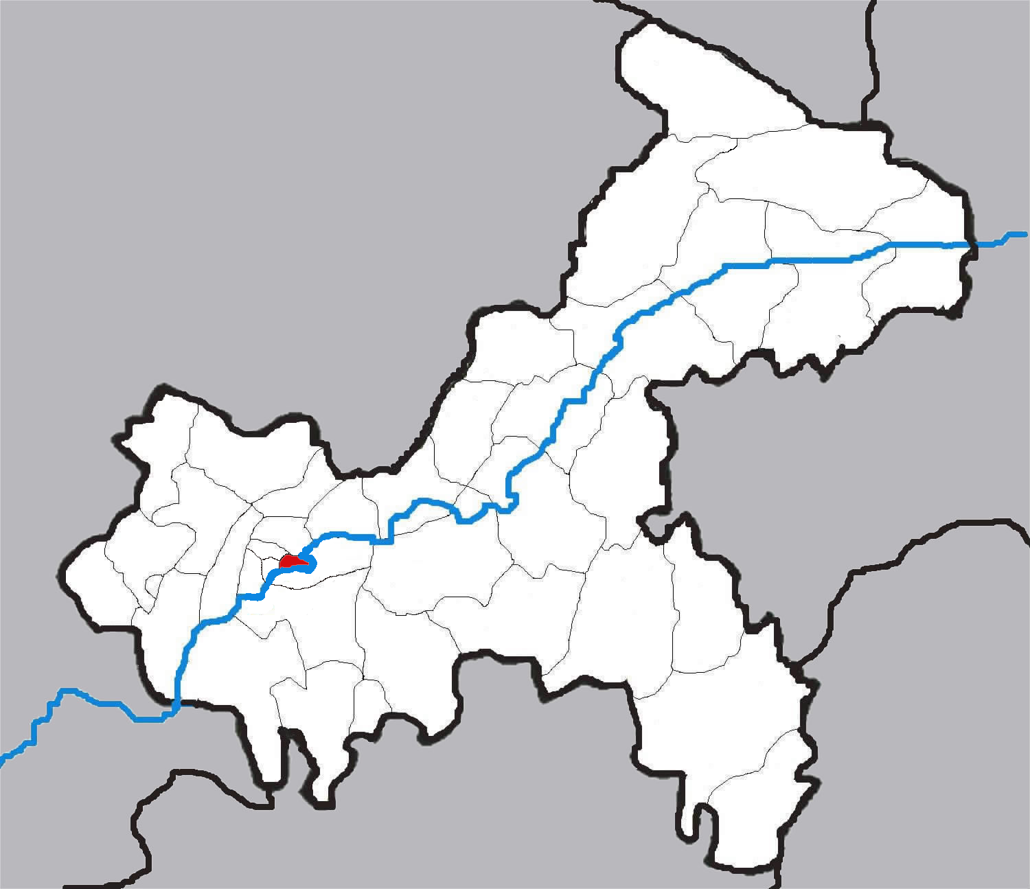 Administration maps of Chongqing, China